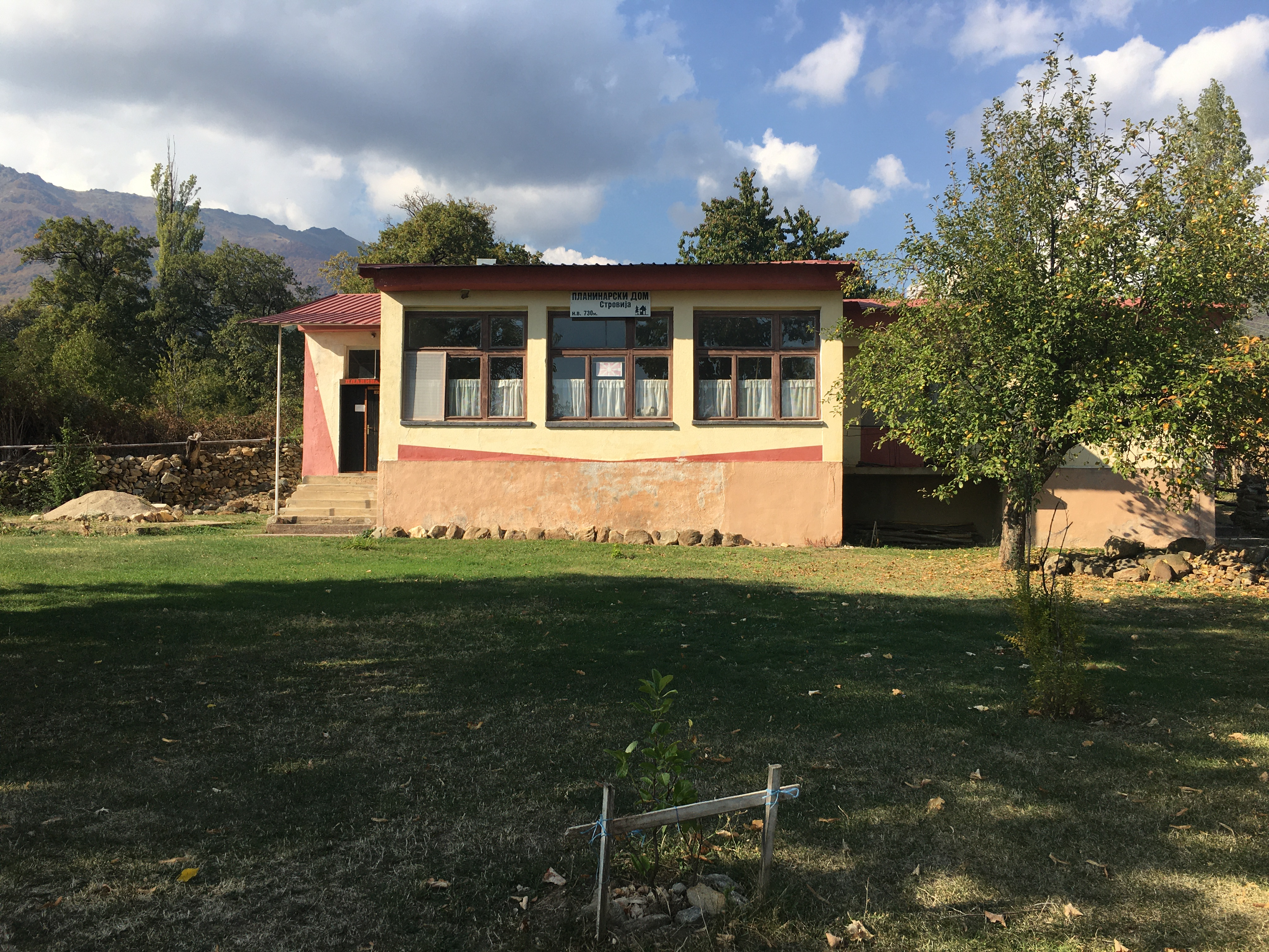 A mountain hut in the village of Strovija